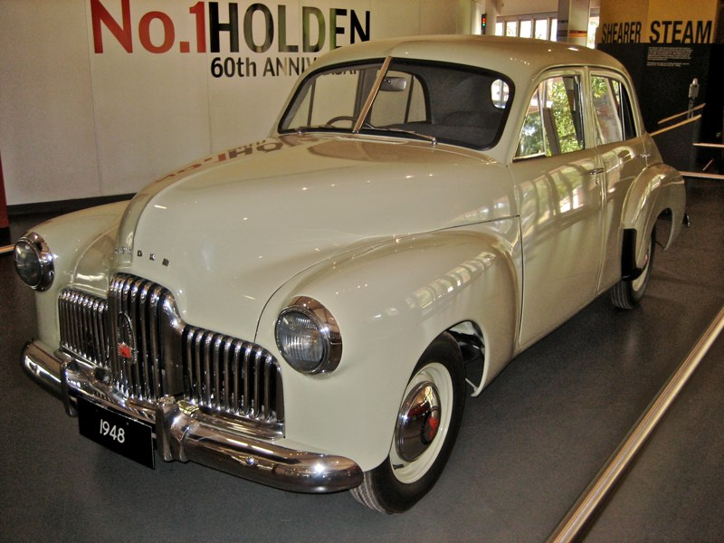 The First Holden 48-215. Touched by a Prime Minister.